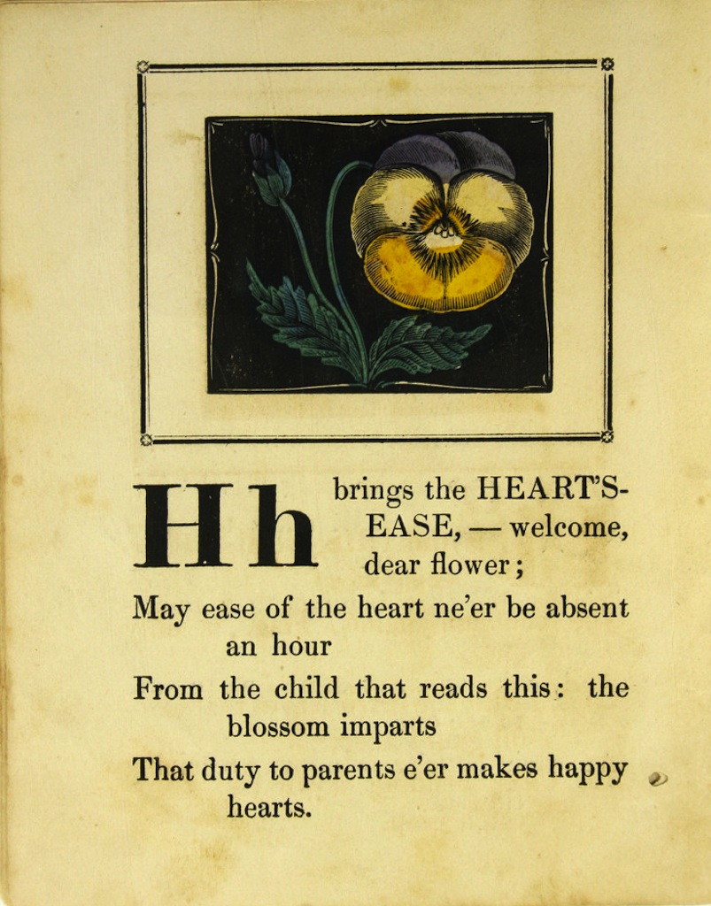 Handcolored woodcut from Dean & Son alphabet toy book}